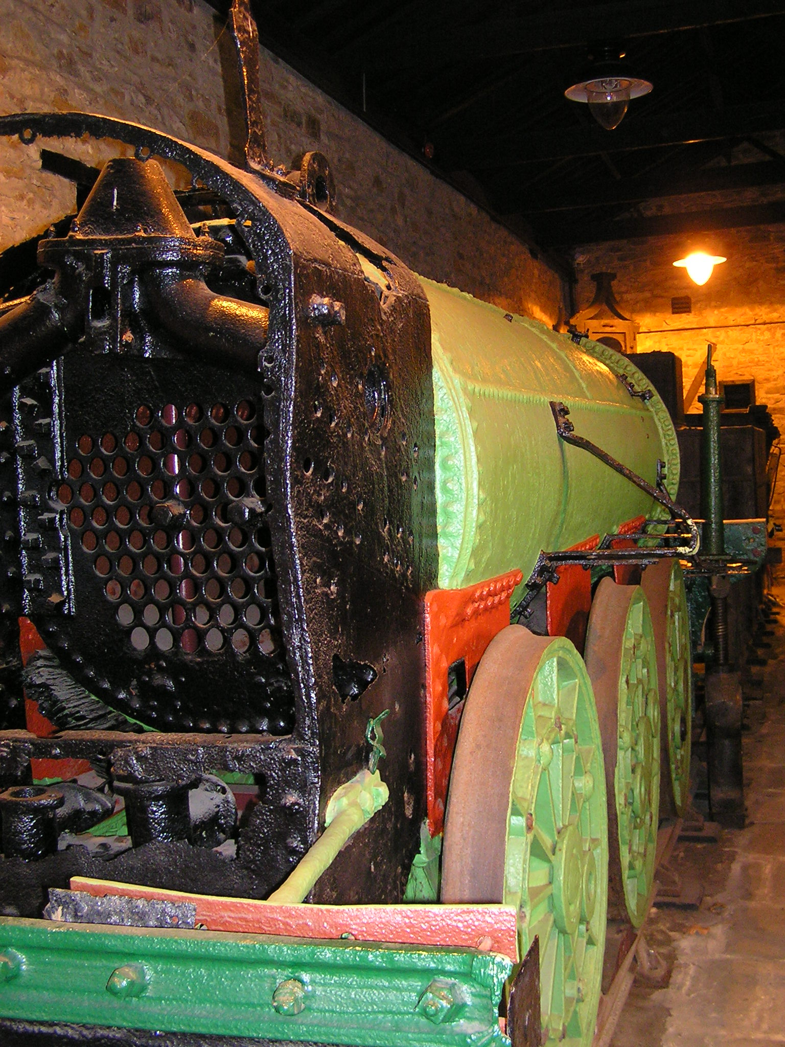 This locomotive was originally thought to be the Hackworth built 'Bradyll' but research now suggests that it is the remains of Nelson a similar loco to 'Derwent' preserved at Darlington Railway Museum.